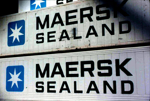 Maersk Sealand containers, photographer: Thorfinn Stainforth